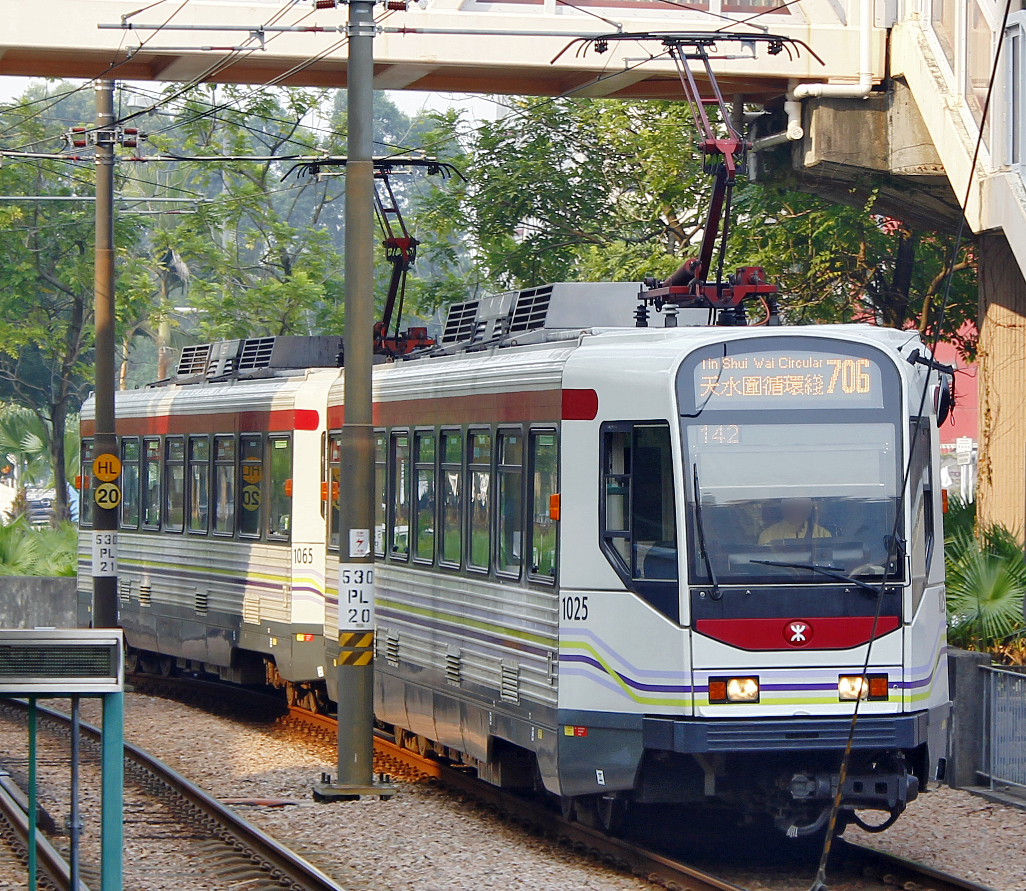 MTR Light Rail Phase I LRV 1025/1065 at Wetland Park Station.